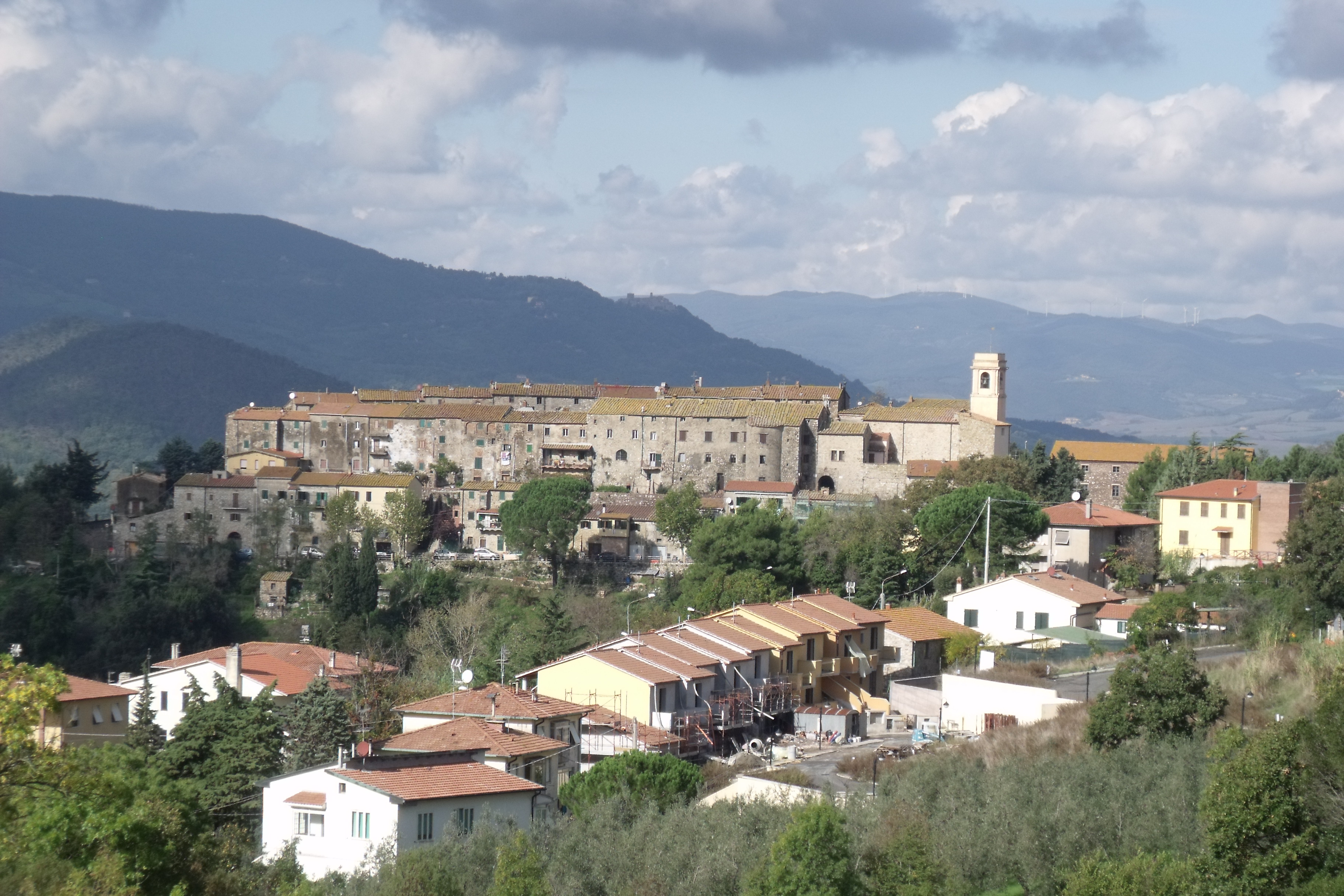 Panorama of Canneto, hamlet of Monteverdi Marittimo, Province of Pisa, Tuscany, Italy